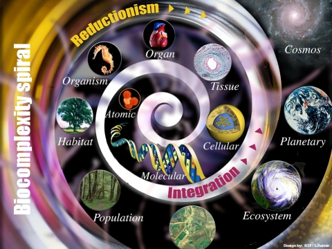 Depiction of multileveled complexity of organisms in their environments from the U.S. National Science Foundation.